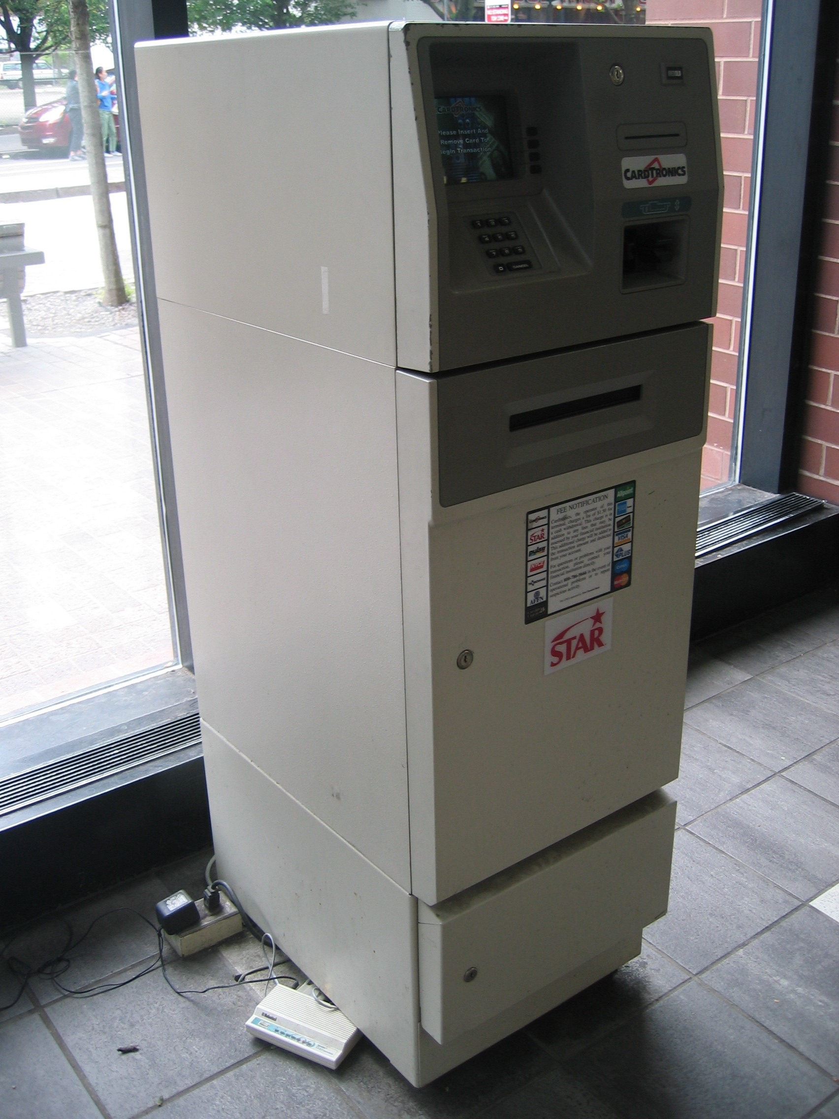 Insecure ATM - The modem for this ATM at the MIT COOP was hanging out in a highly unsecure fashion.